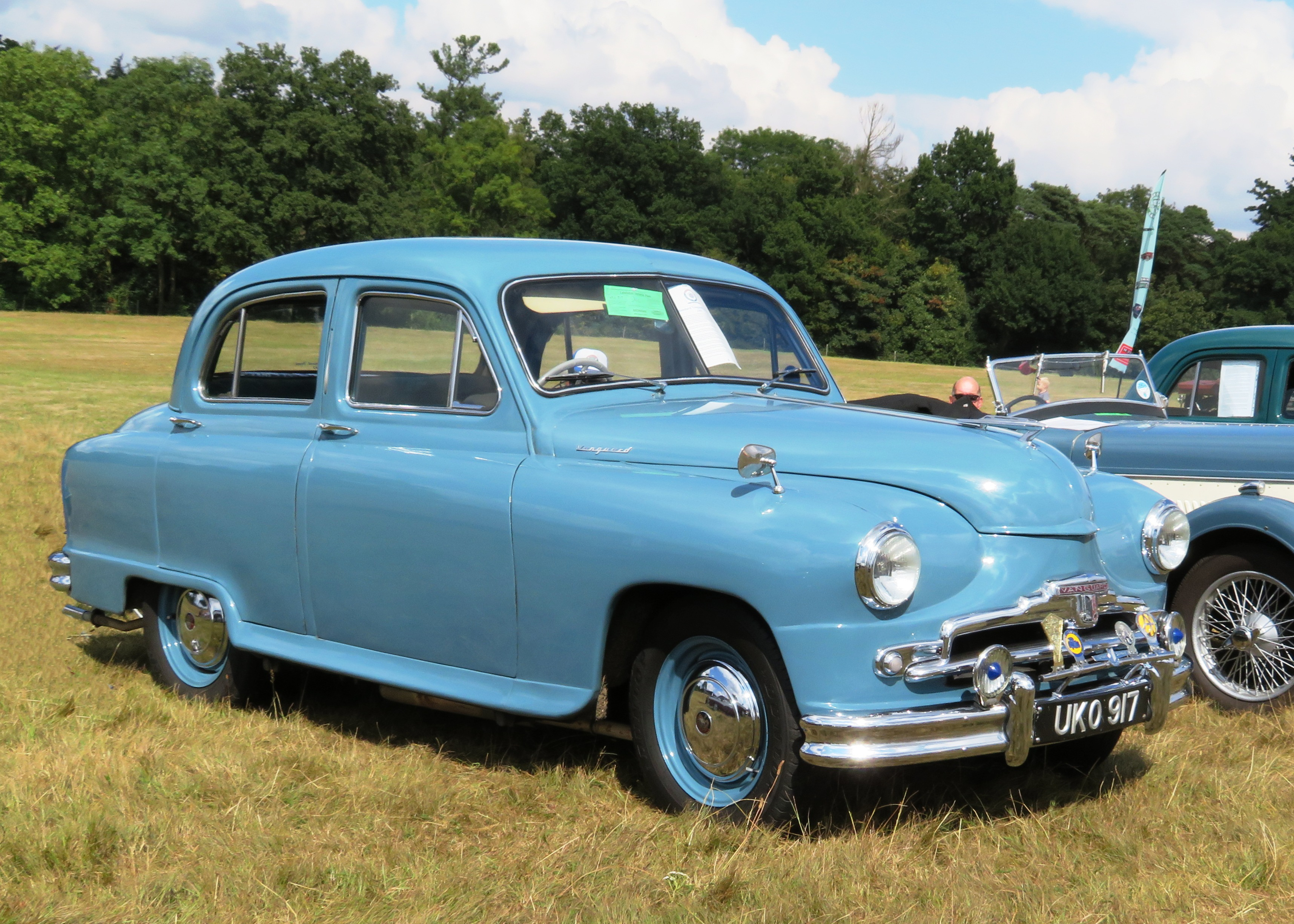 Standard Vanguard Phase II